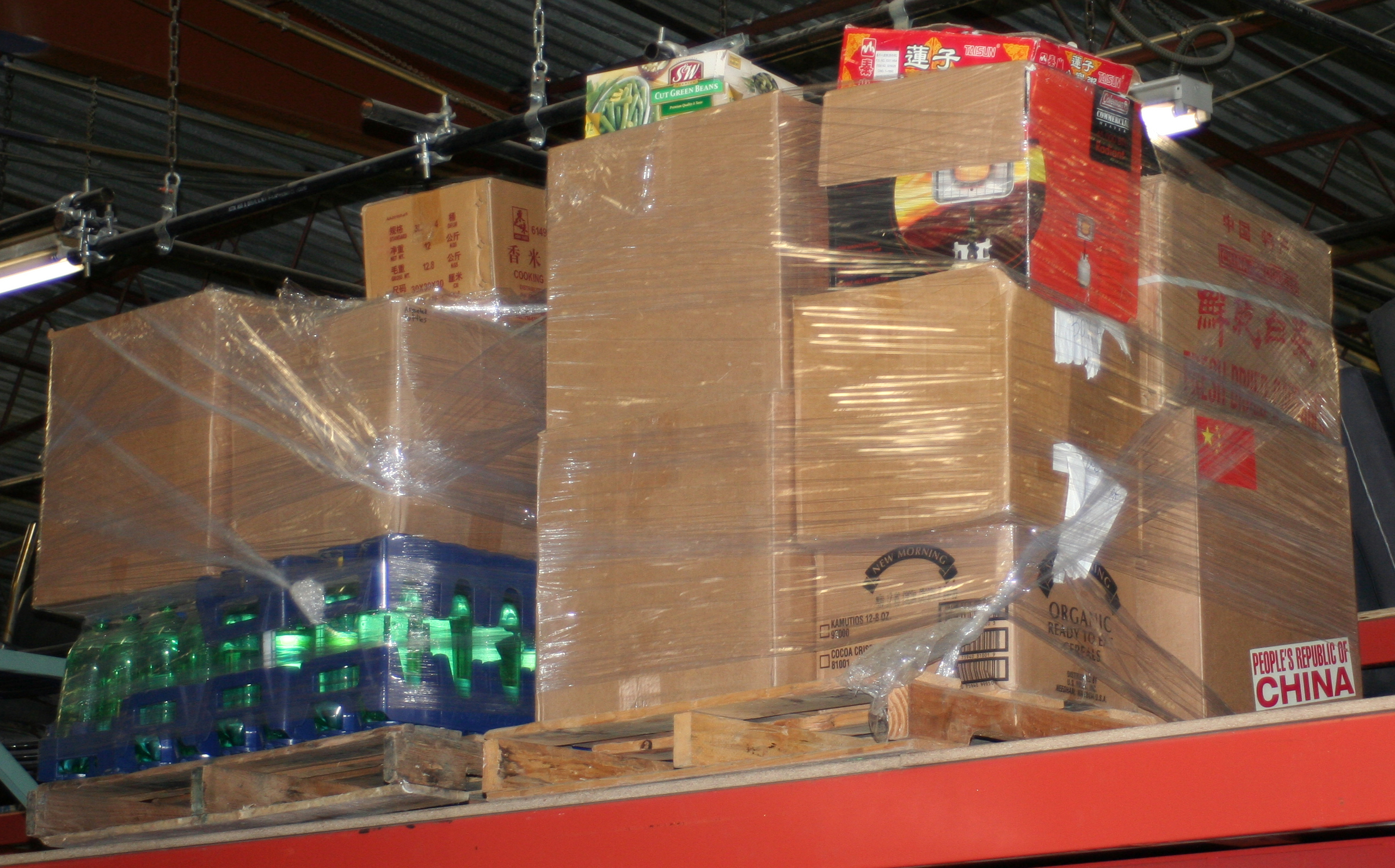 Image of a supply pallet on Jericho (TV series)